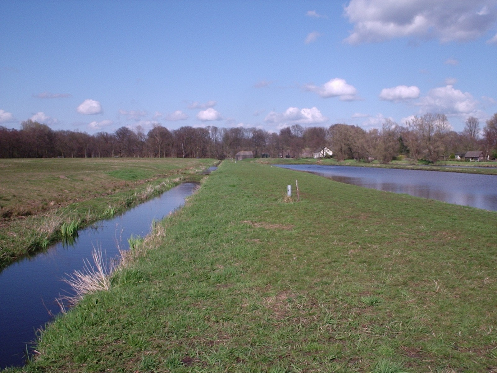 Inundation area with concrete shelter (preserved area near Ruigenhoek - Utrecht) photographed April 17 2006